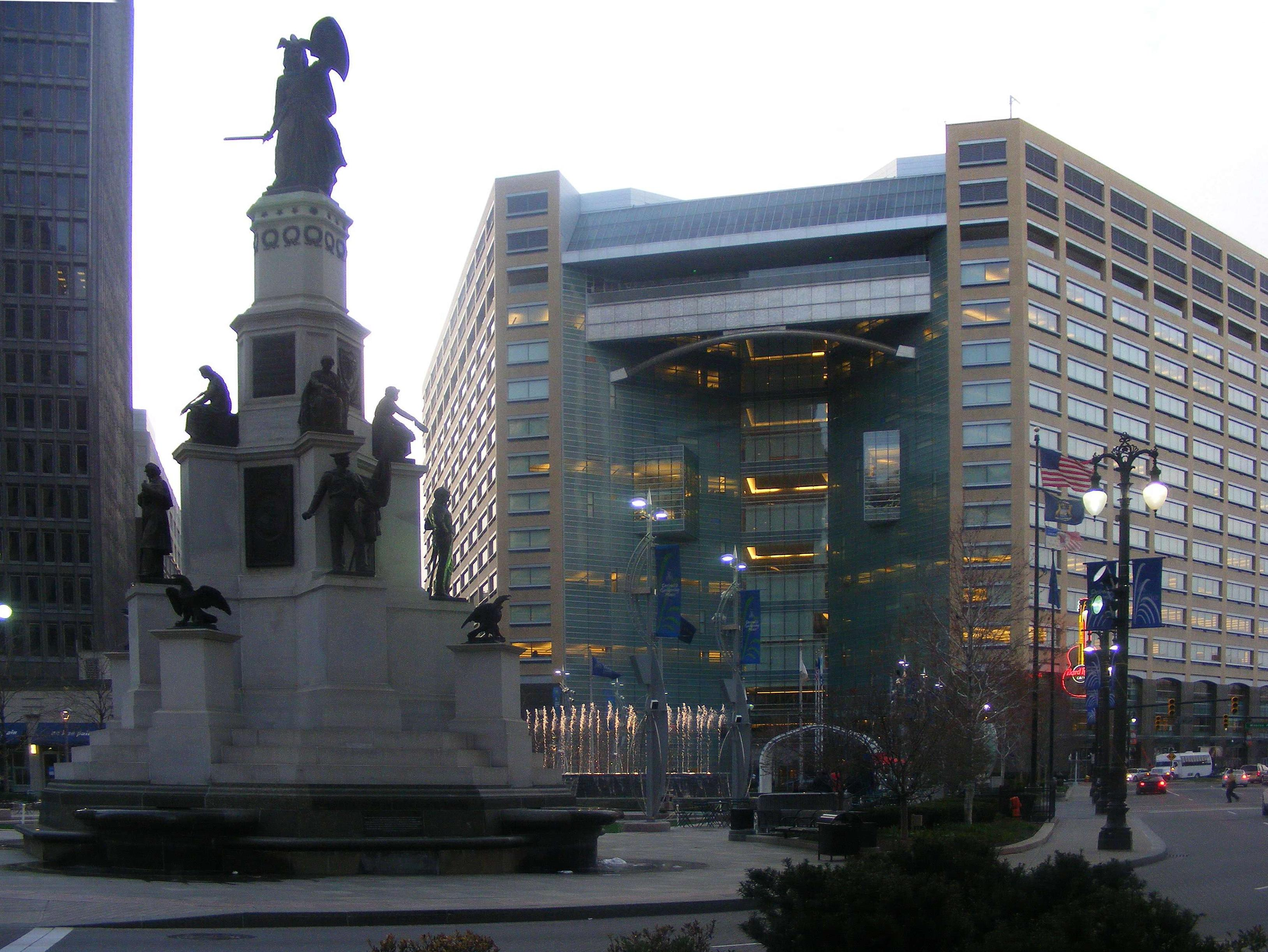 Compuware Headquarters with Michigan Soldiers' and Sailors' Monument on Campus Martius Park